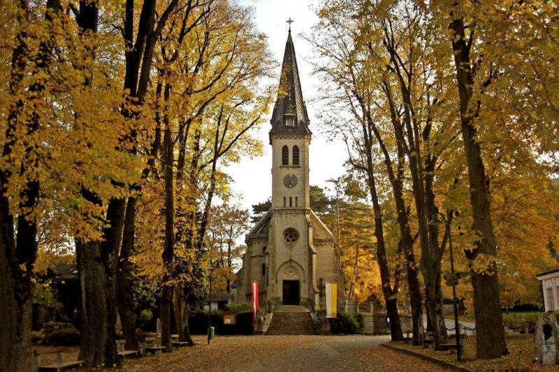 ensemble of nature and neo-gothic architecture, a row of trees leading to a church, forming an entrance situation or vegetable cathedral in front of the church which is situated in Weissenbach an der Triesting, Lower Austria